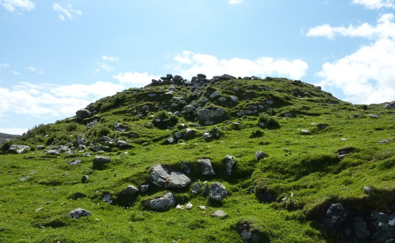 Dun Cuier, a broch on Barra, Outer Hebrides, Scotland